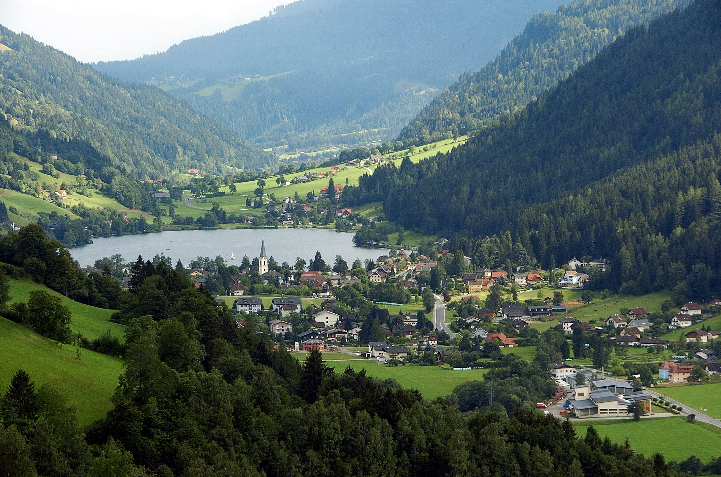 Central part of the Valley Gegend with the Brennsee ("Lake Brenn") in the community Feld am See, district Villach-Land, Carinthia, Austria